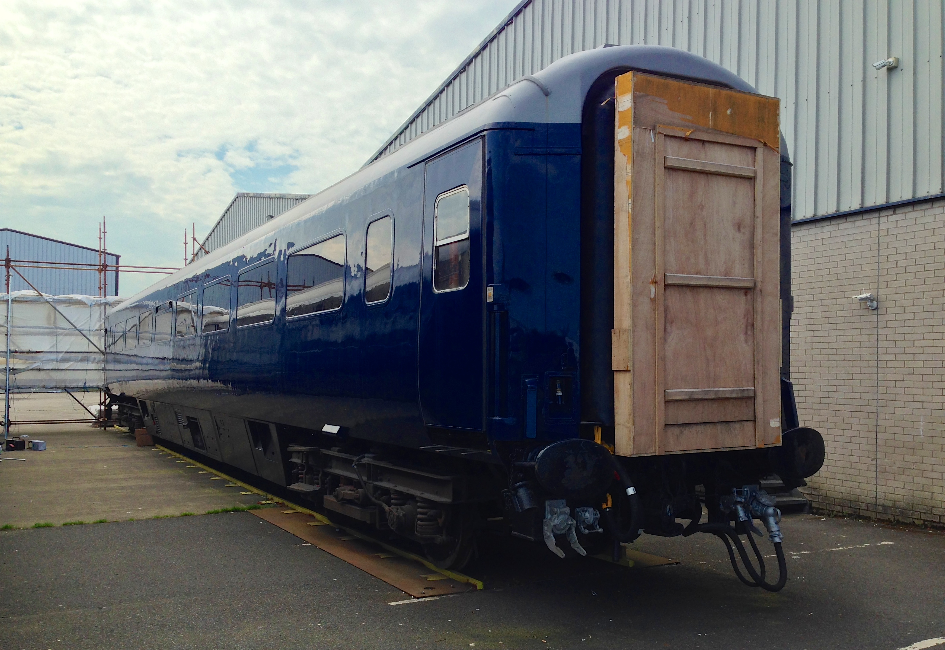 Taken from Alexandra Road 10/4/2015 for Brodie Engineering, Kilmarnock, Scotland. Originally 7171